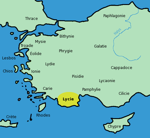 Map of Lycia in French. Adaptated from Image:Turkey ancient region map ionia.JPG.